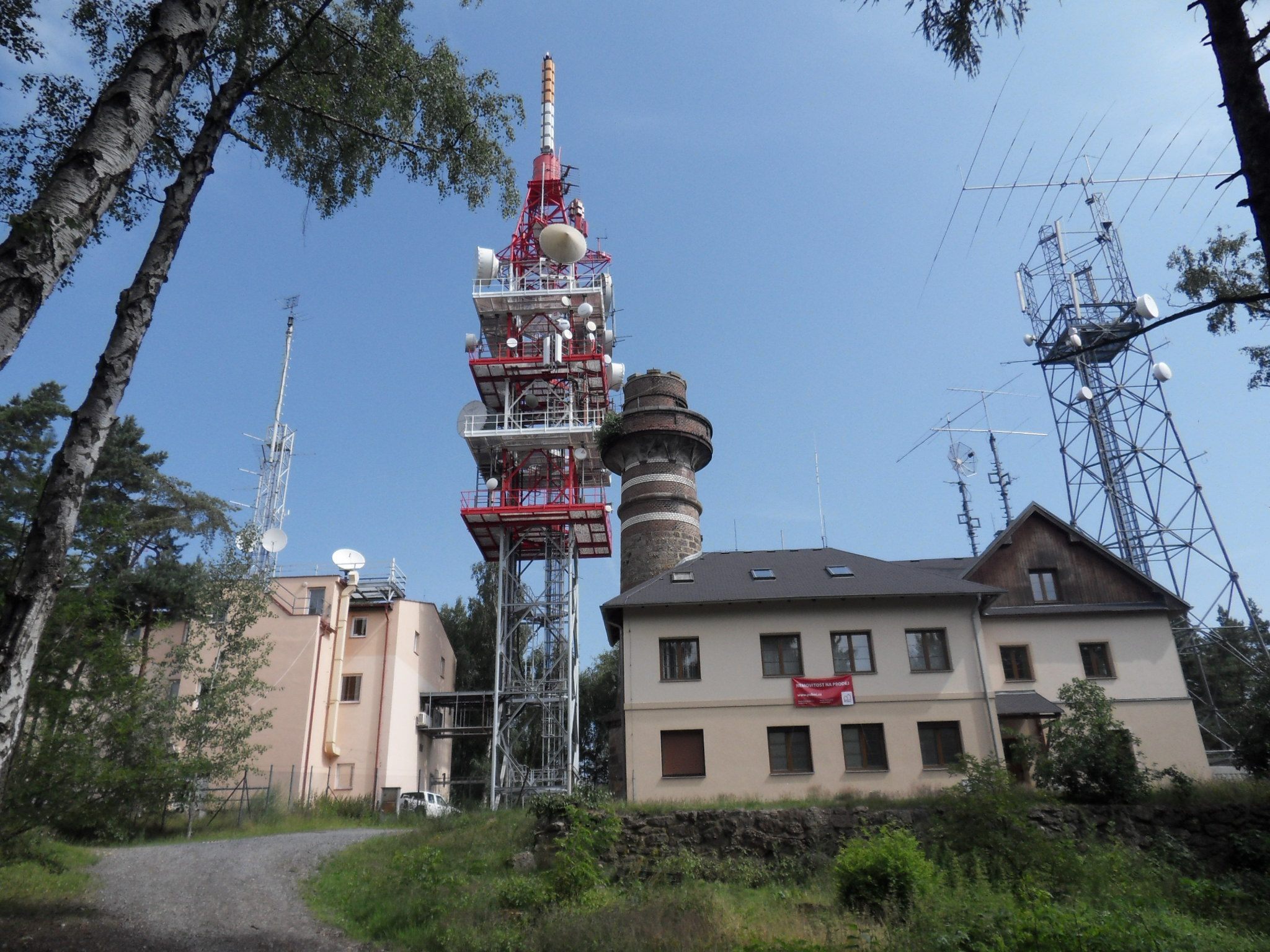 Observation tower and radio tower on the hill Krkavec by Plzeň, Plzeň-North District, Czech Republic